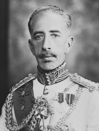 Faisal I, King of Iraq